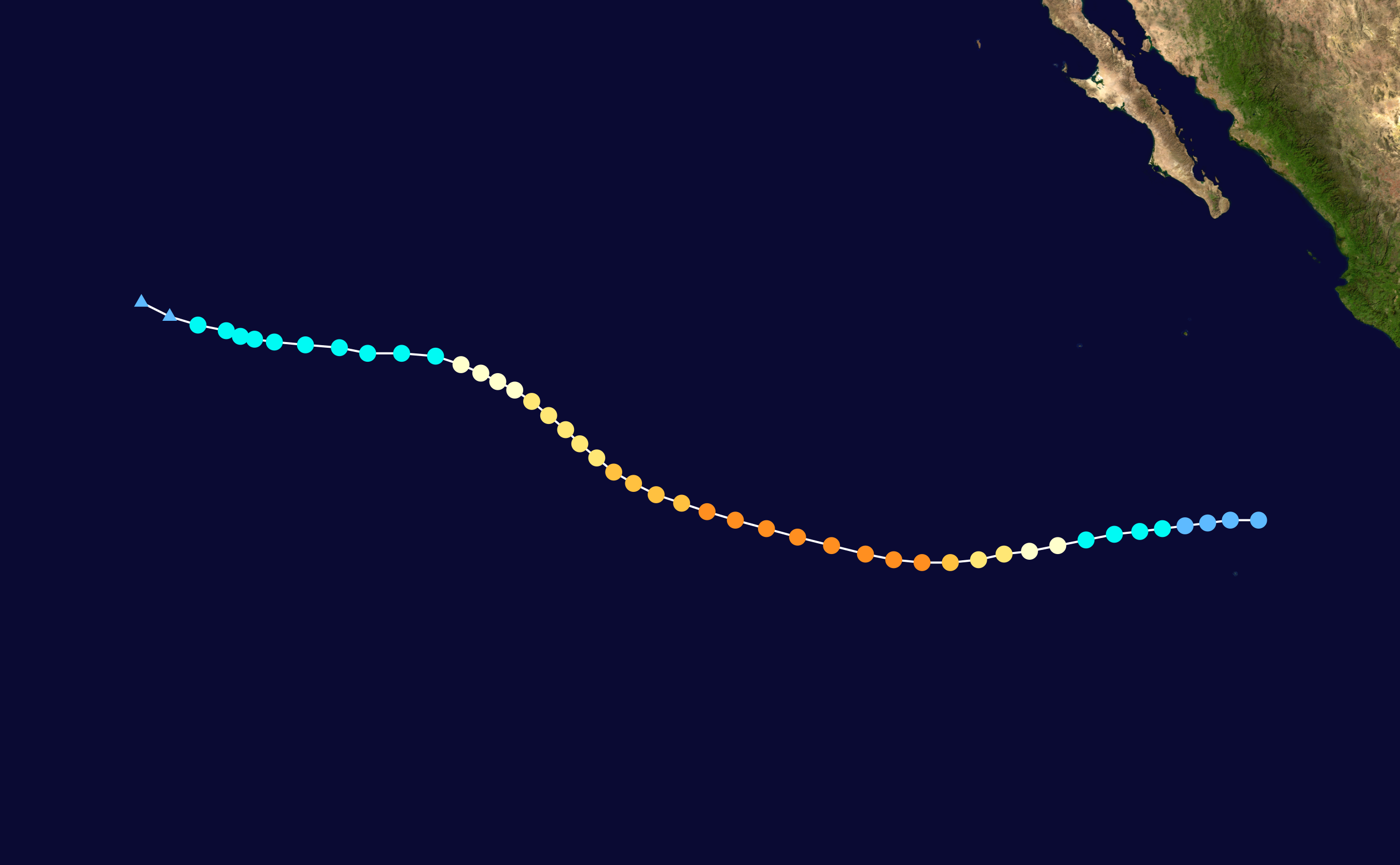 Track map of Hurricane Fernanda of the 2017 Pacific hurricane season. The points show the location of the storm at 6-hour intervals. The colour represents the storm's maximum sustained wind speeds as classified in the Saffir–Simpson scale (see below), and the shape of the data points represent the nature of the storm, according to the legend below. Saffir–Simpson scale Tropical depression≤38 mph≤62 km/h Category 3111–129 mph178–208 km/h Tropical storm39–73 mph63–118 km/h Category 4130–156 mph209–251 km/h Category 174–95 mph119–153 km/h Category 5≥157 mph≥252 km/h Category 296–110 mph154–177 km/h Unknown Storm type Tropical cyclone Subtropical cyclone Extratropical cyclone / Remnant low / Tropical disturbance / Monsoon depression